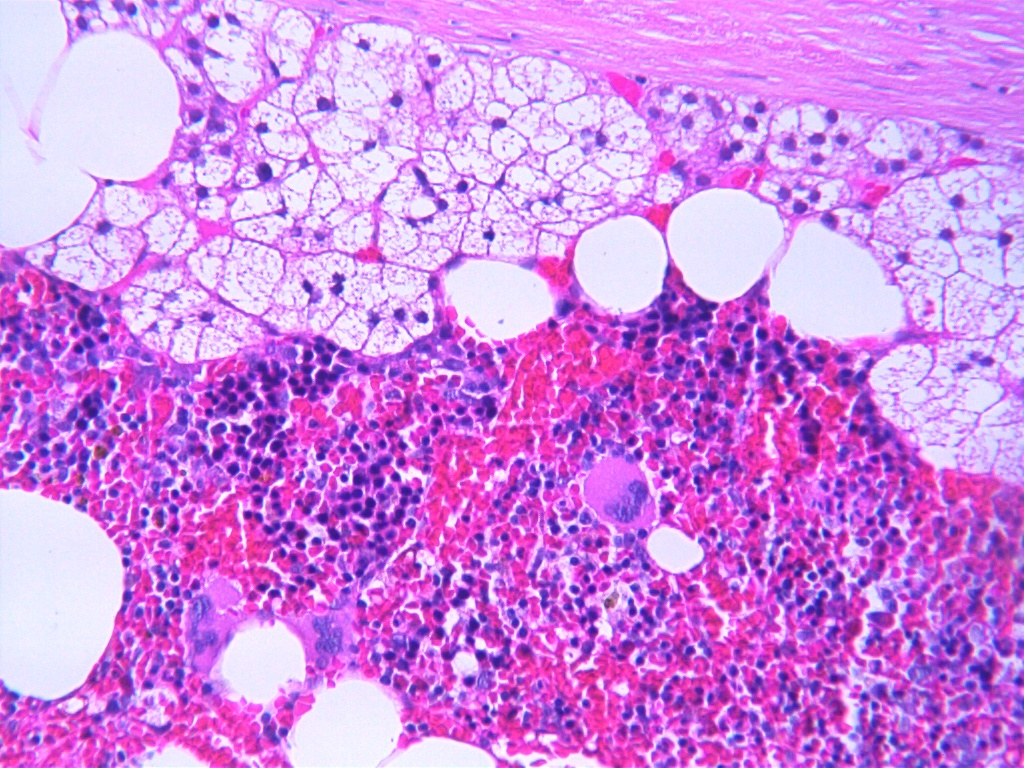 High power magnification of haematoxylin & eosin section of myelolipoma showing adrenal, adipose, and trilineage myeloid elements.